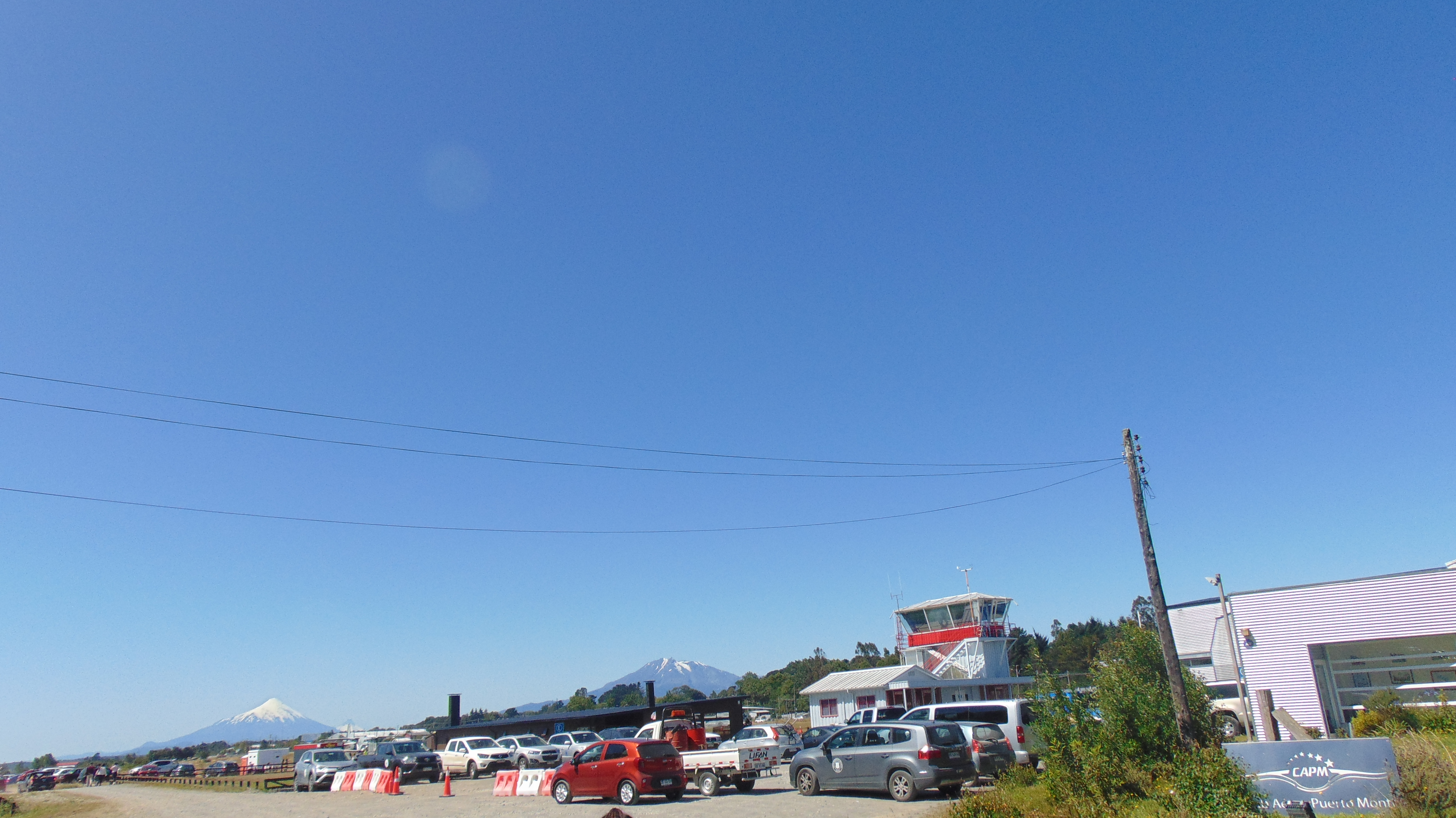 Marcel Marchant-La Paloma Airport, February 2020